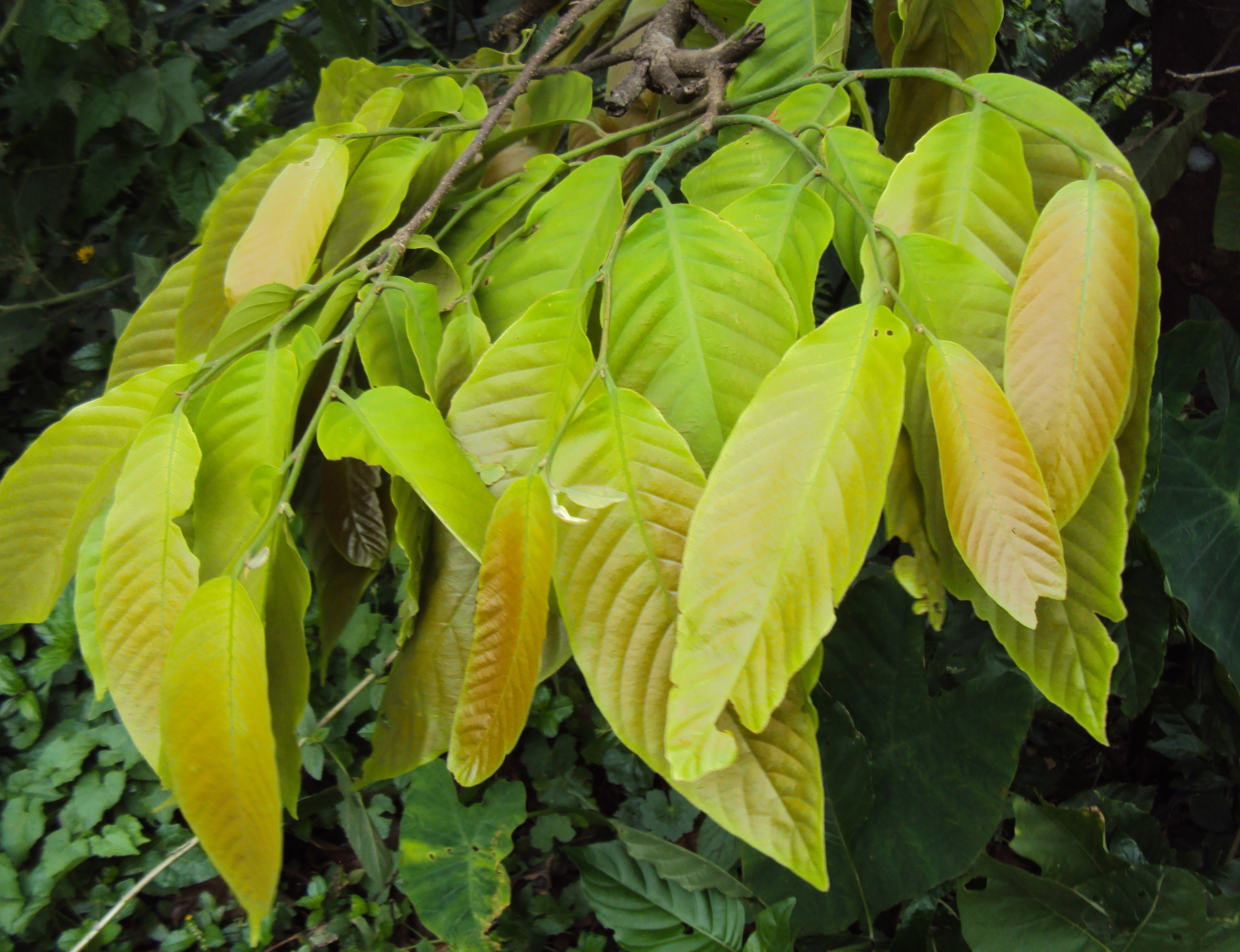 Polyalthia fragrans - Guatteria fragrans